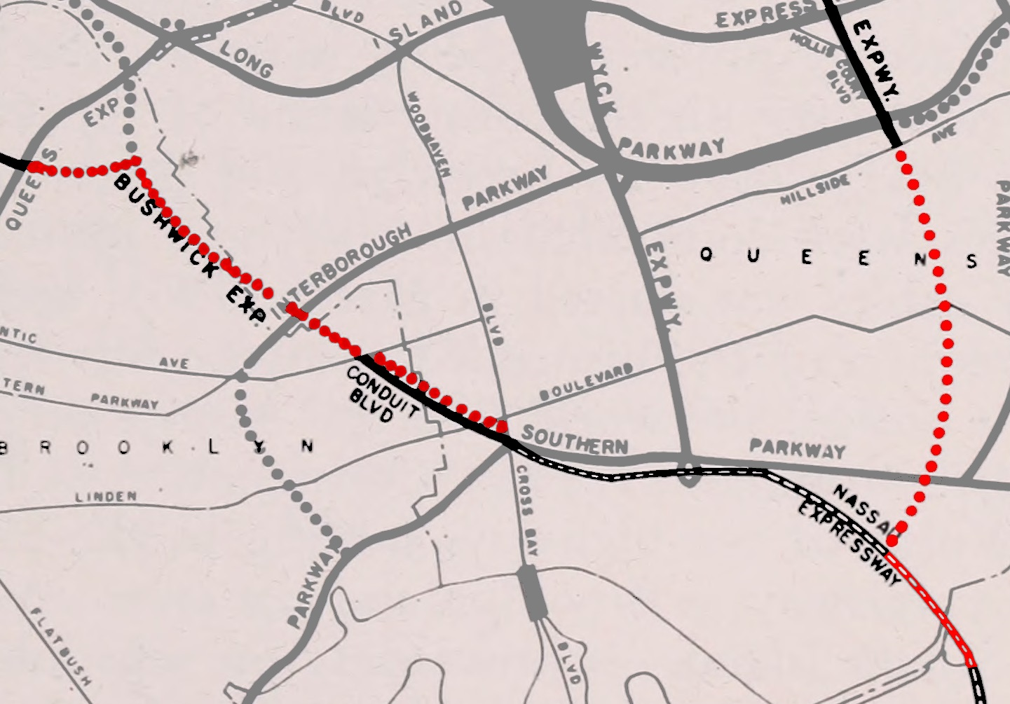 A cropped highway map from the 1964 NYC Parks Department book, "30 years of progress", highlighting the planned routing of Interstate 78 in Brooklyn, and Southern Queens. Highlighted in red are the proposed but unbuilt portions of the route. In black are the portions of the route which were completed or partially built, and are now operated as separate highways. The sections are from left-to-right (west to east) or counterclockwise: 1. Williamsburg Bridge (built) - crosses East River between Lower East Side, Manhattan and Williamsburg, Brooklyn. 2. Bushwick Expressway (unbuilt) - as mapped, would run west-to-east across northern/central Brooklyn via Wyckoff Avenue; alternate route would have run via Bushwick Avenue. 3. Conduit Boulevard/Conduit Avenue (built as an arterial road as part of NY 27 Sunrise Highway; expressway unbuilt) - expressway would have been built in boulevard median, connecting Bushwick Expressway and Nassau Expressway. 4. Nassau Expressway (partially built) - Runs between Cross Bay Boulevard in Howard Beach, Queens, and Springfield Gardens along northern boundary of JFK Airport. Only eastbound lane built between Cross Bay and Van Wyck Expressway (I-678). 5. Nassau Expressway extension/connector (unbuilt) - Expressway connection between current sections of the highway in Queens and Nassau County, along or parallel to Rockaway Boulevard. Not part of I-78. 6. Clearview Expressway Extension (unbuilt) - Southern extension of Clearview Expressway through Southeast Queens to connect with Nassau Expressway and JFK Expressway. 7. Clearview Expressway (built; now I-295) - runs north of Hillside Avenue towards Throgs Neck Bridge. Continues in the Bronx as Cross Bronx Expressway extension towards Bruckner Interchange.